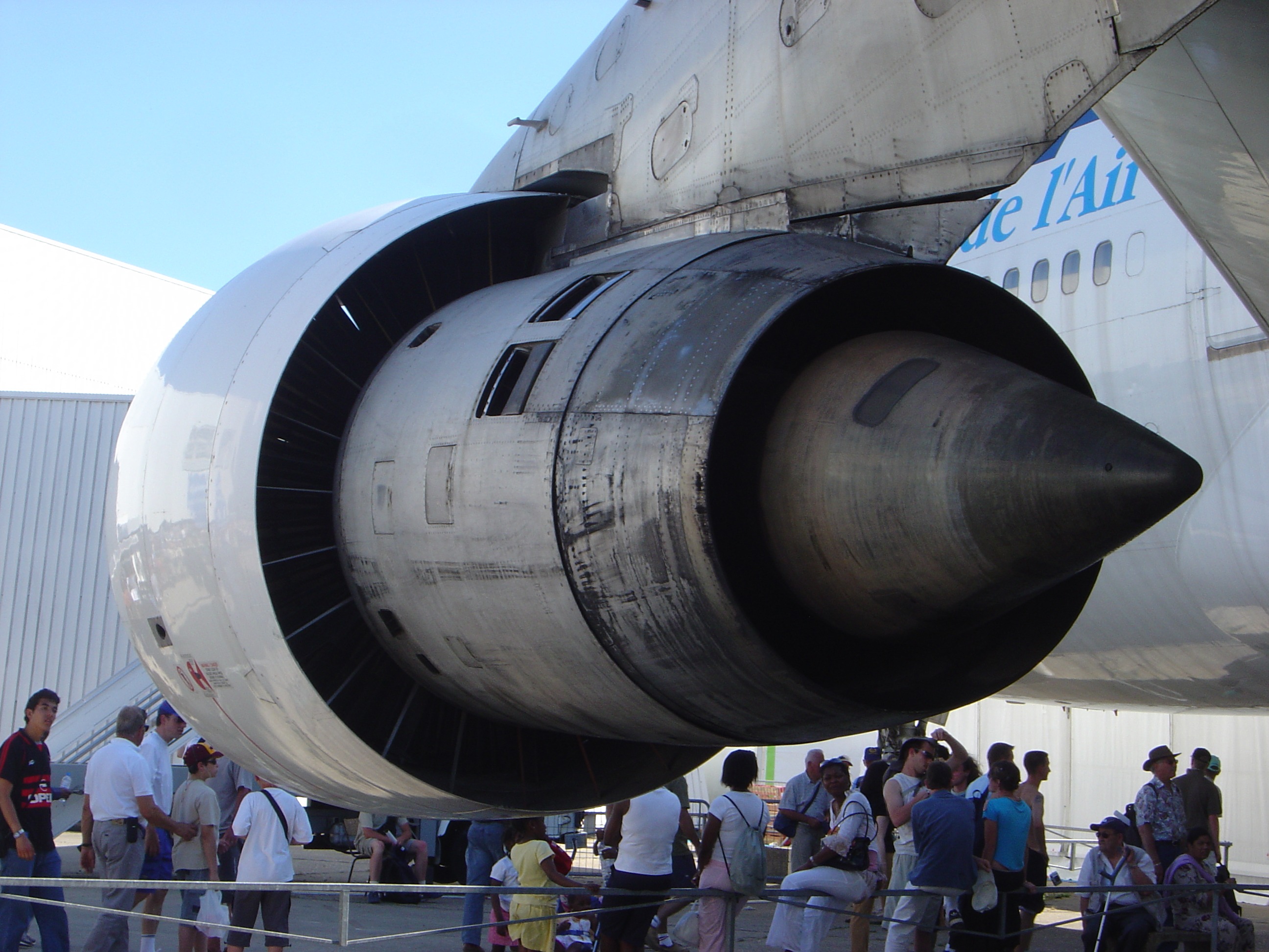 Boeing 747: detail of a turbofan, Musée de l'Air et de l'Espace, Le Bourget (near Paris)